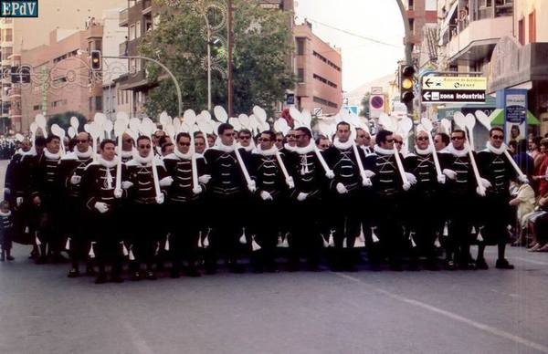 Bloque de la Comparsa de Estudiantes de Villena